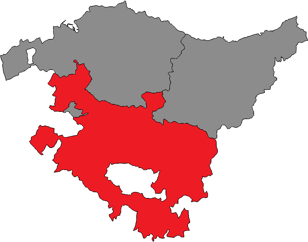 Basque Parliament district of Álava.